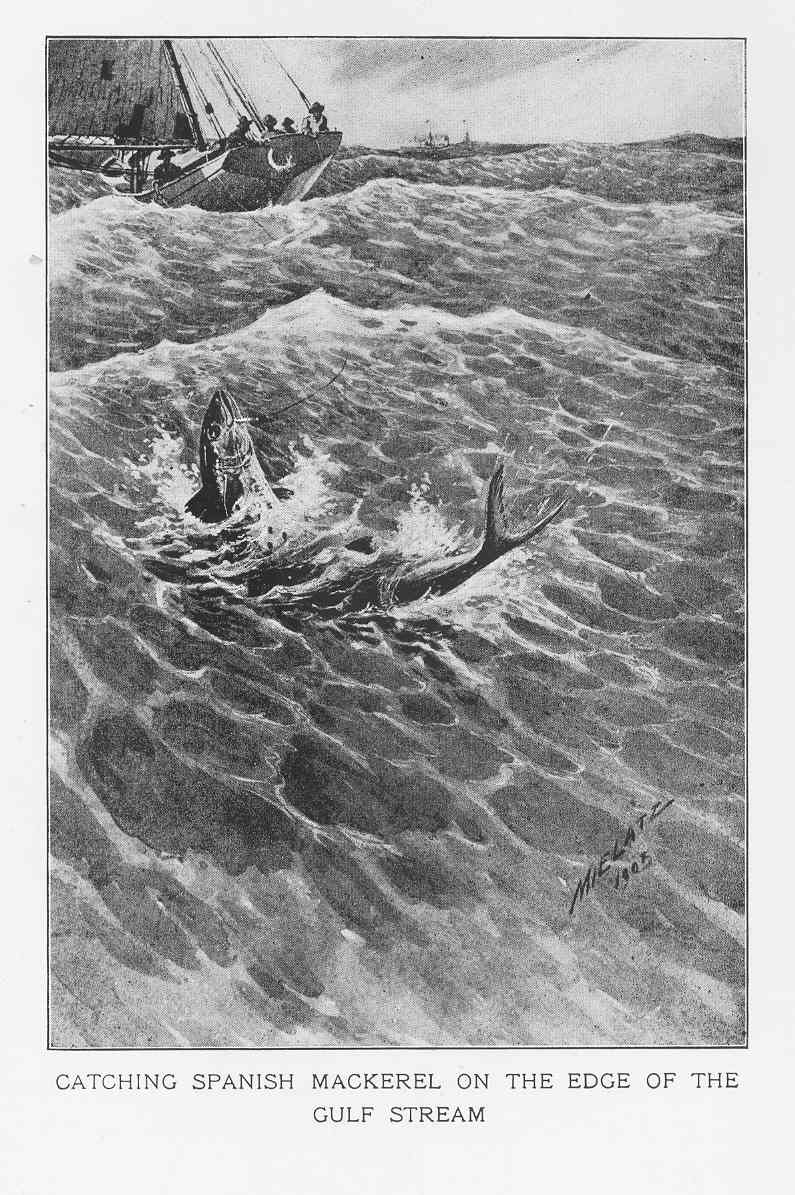 Catching Spanish Mackerel on the Edge of the Gulf Stream Subject: Fishing, Spanish mackerel Tag: Sport Fishing